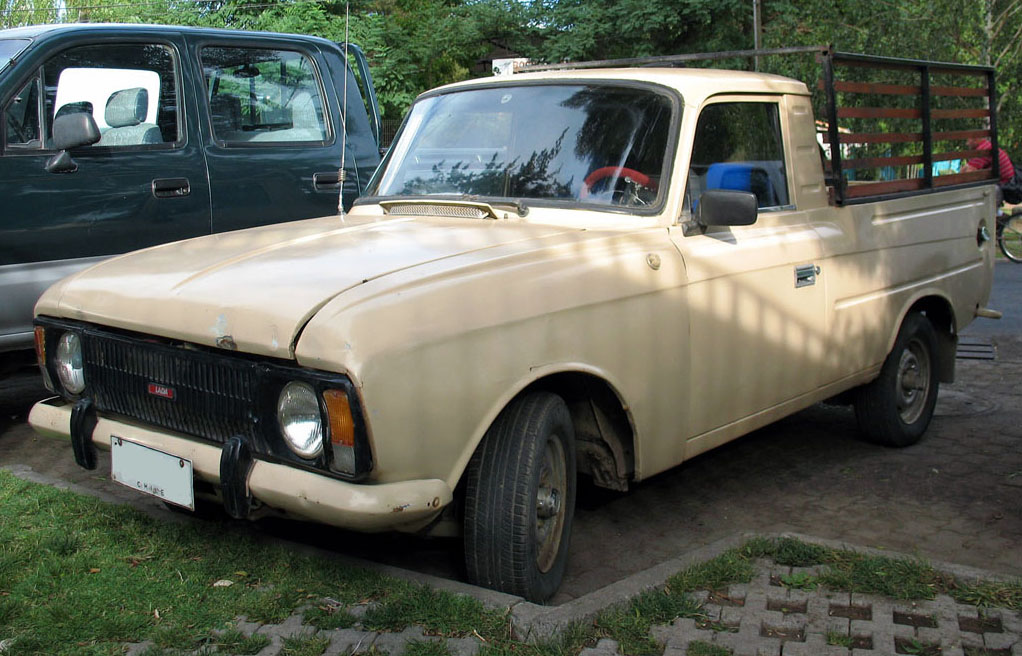 1991 Izh 2715, a small Moskvich-based pickup which was marketed as a Lada in Chile.